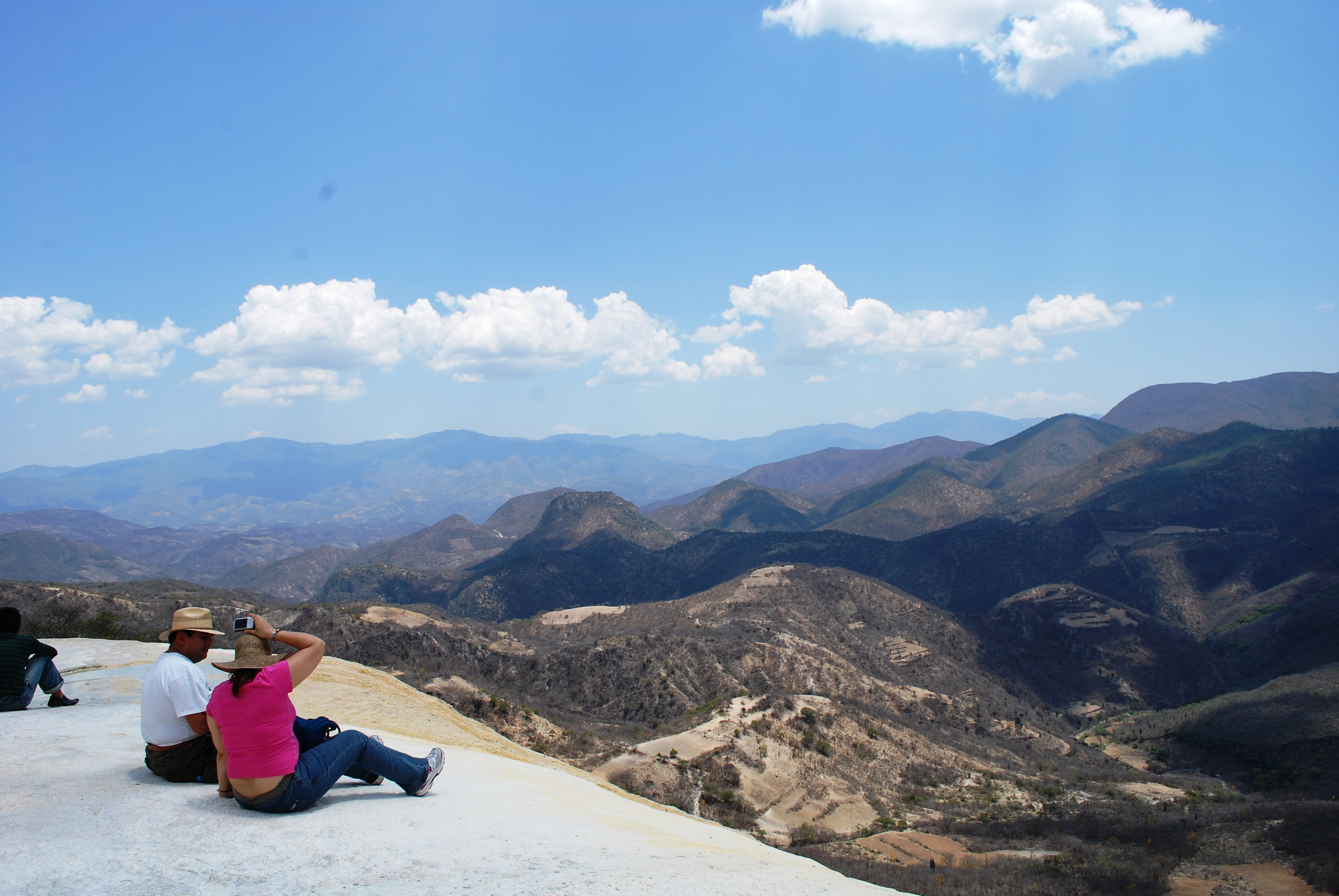 Edge of pool area overlooking the Hierve el Agua valley in Oaxaca, Mexico